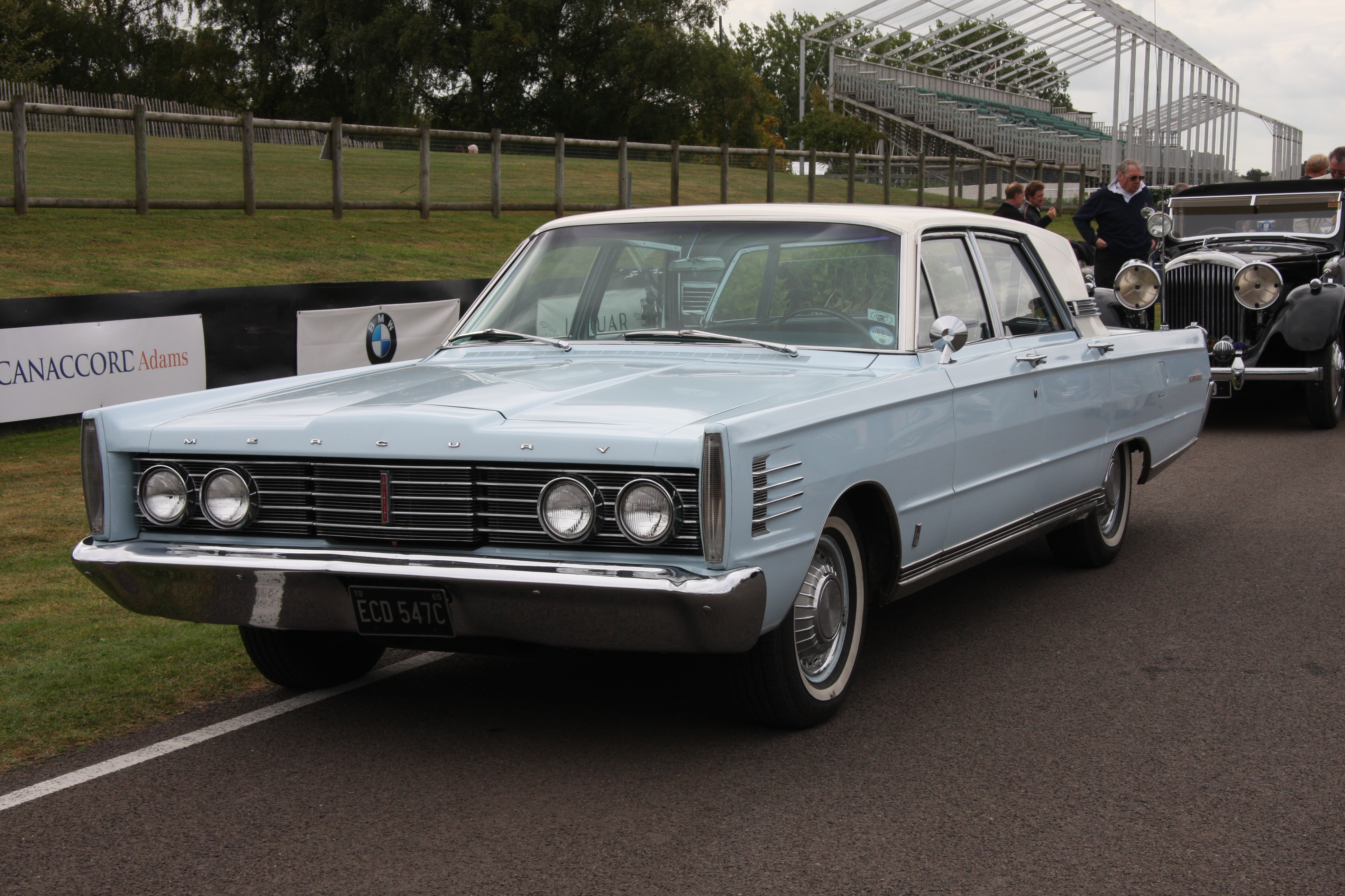 Mercury